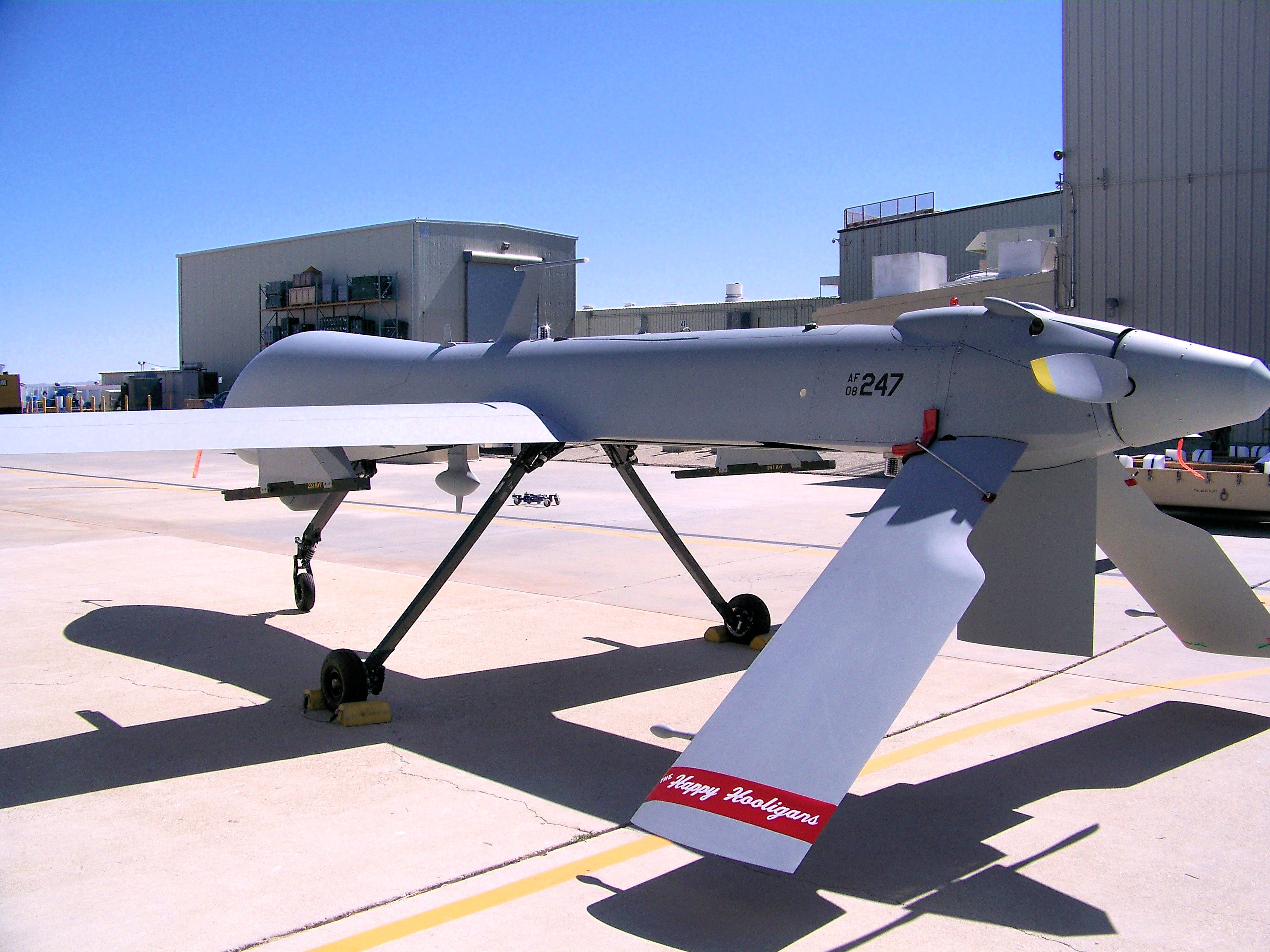 The North Dakota Air National Guard accepts its' first MQ-1 Predator aircraft at the General Atomics Aeronautical Systems Gray Butte facility in California, June 21. A sticker of the traditional Happy Hooligan tailflash is ceremoniously taped to the tail of the aircraft before it is crated for delivery.